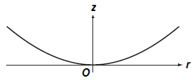 Sag of an optical lens